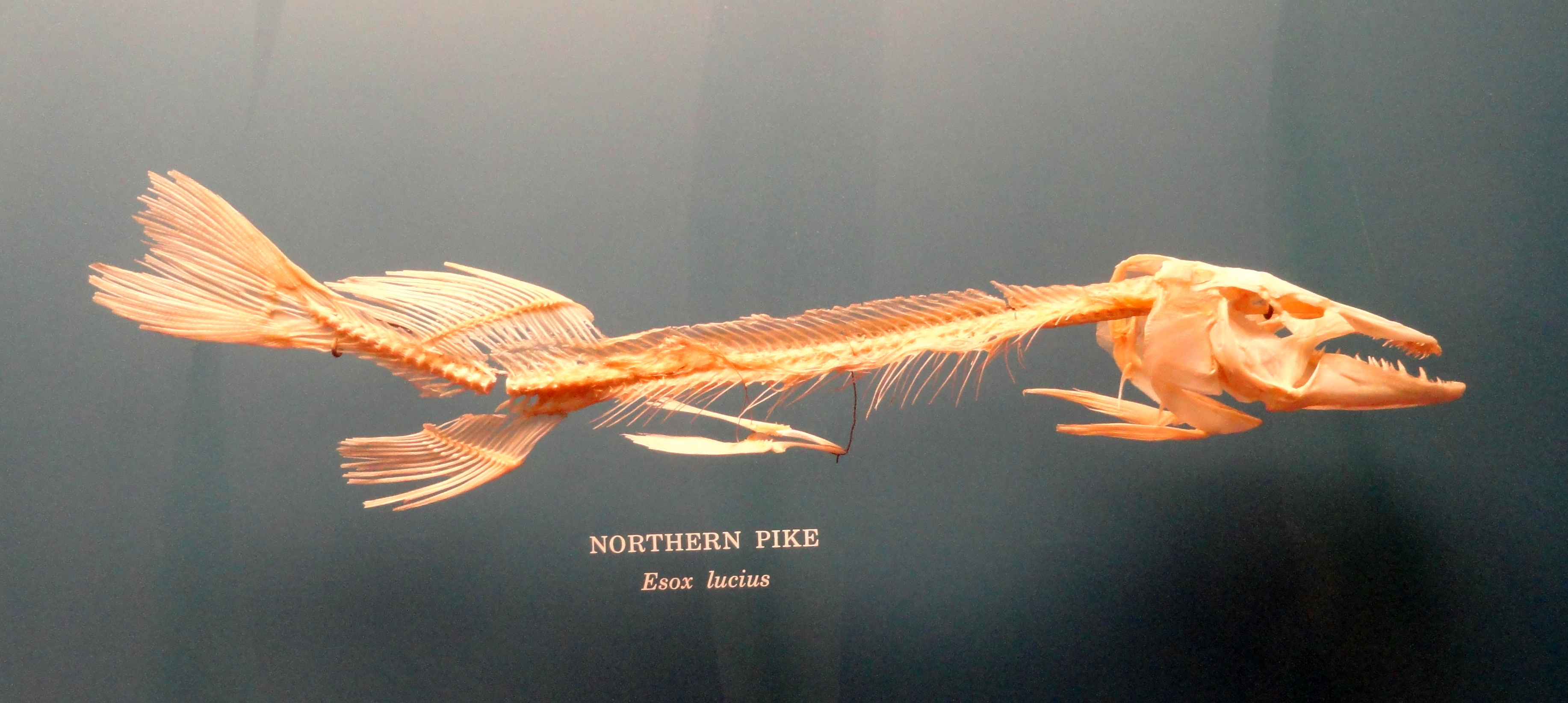 Exhibit in the National Museum of Natural History, United States, in Washington, DC, USA.